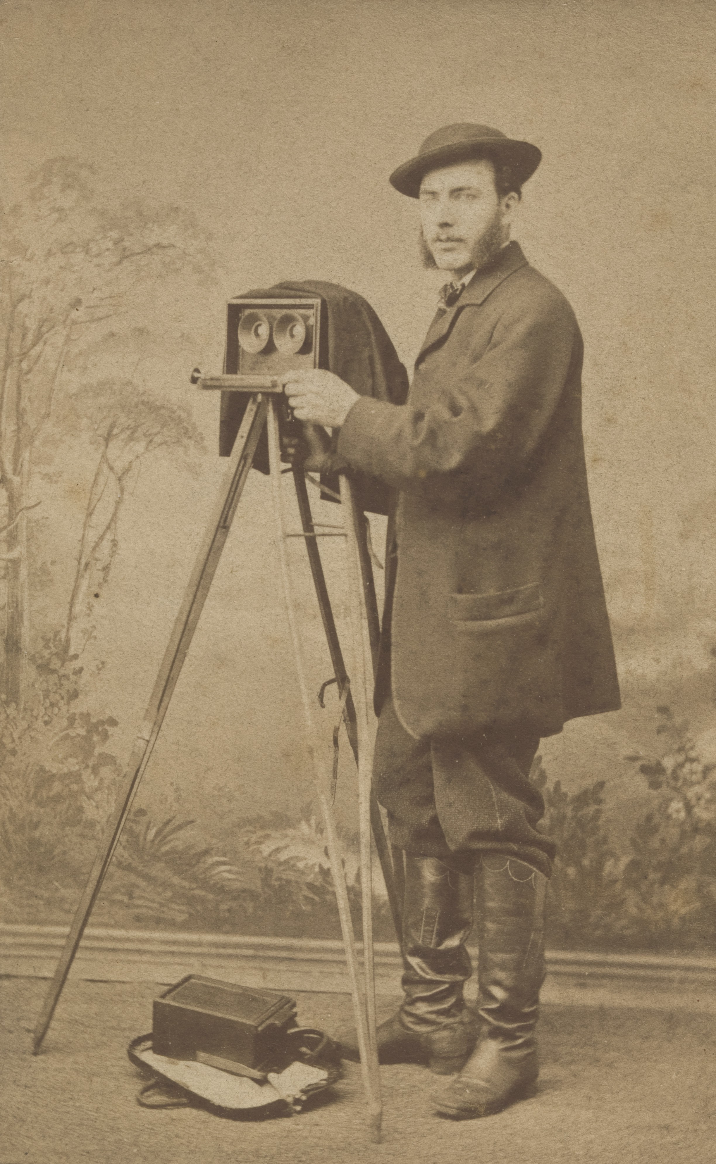 John Carbutt, self portrait, albumen silver CDV